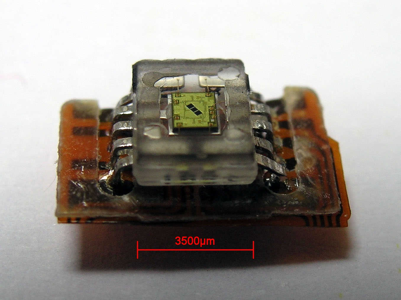 This is a photodetector salvaged from a Hitachi CDR-7930 (circa 1996). The photodetector contains 3 photodiodes, visible in the photo.